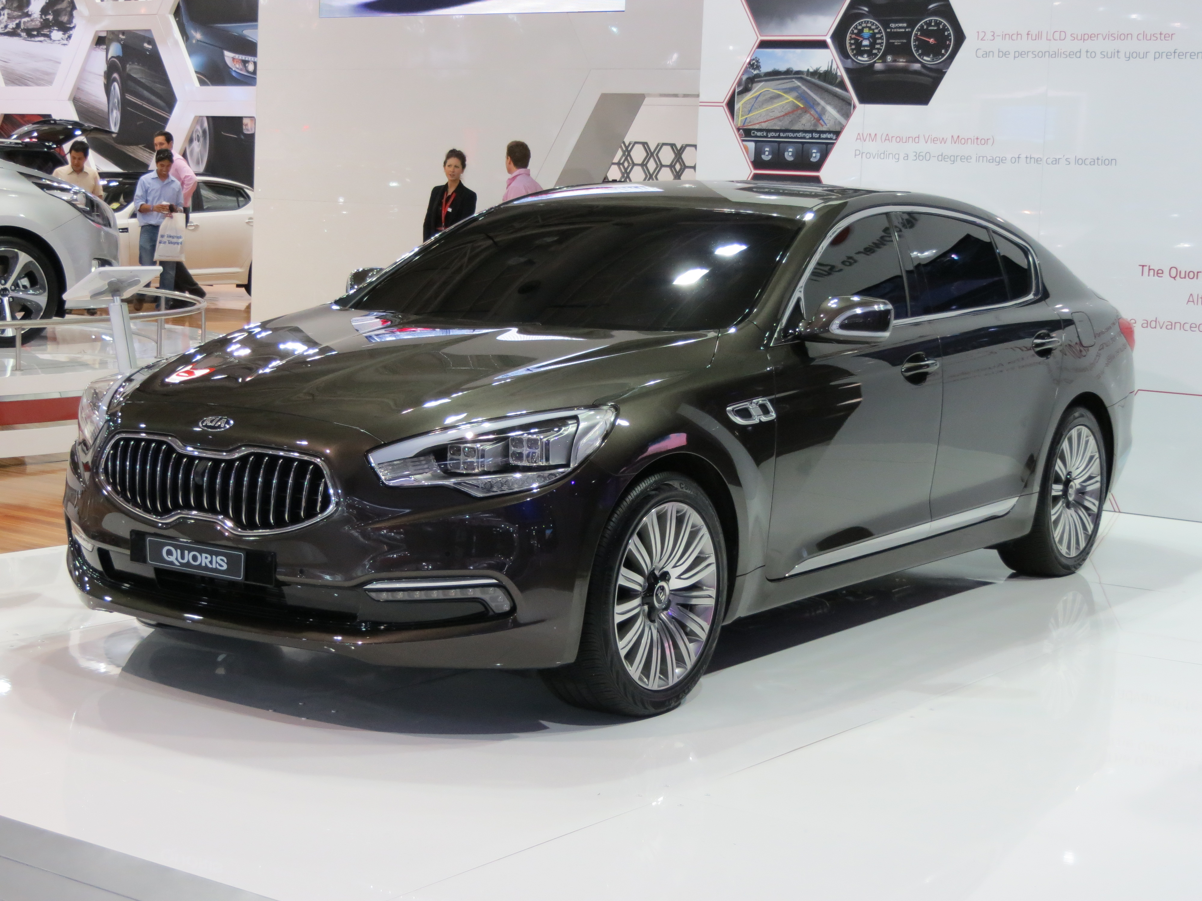 2012 Kia Quoris (KH) sedan. Photographed at the 2012 Australian International Motor Show, Sydney, New South Wales, Australia.